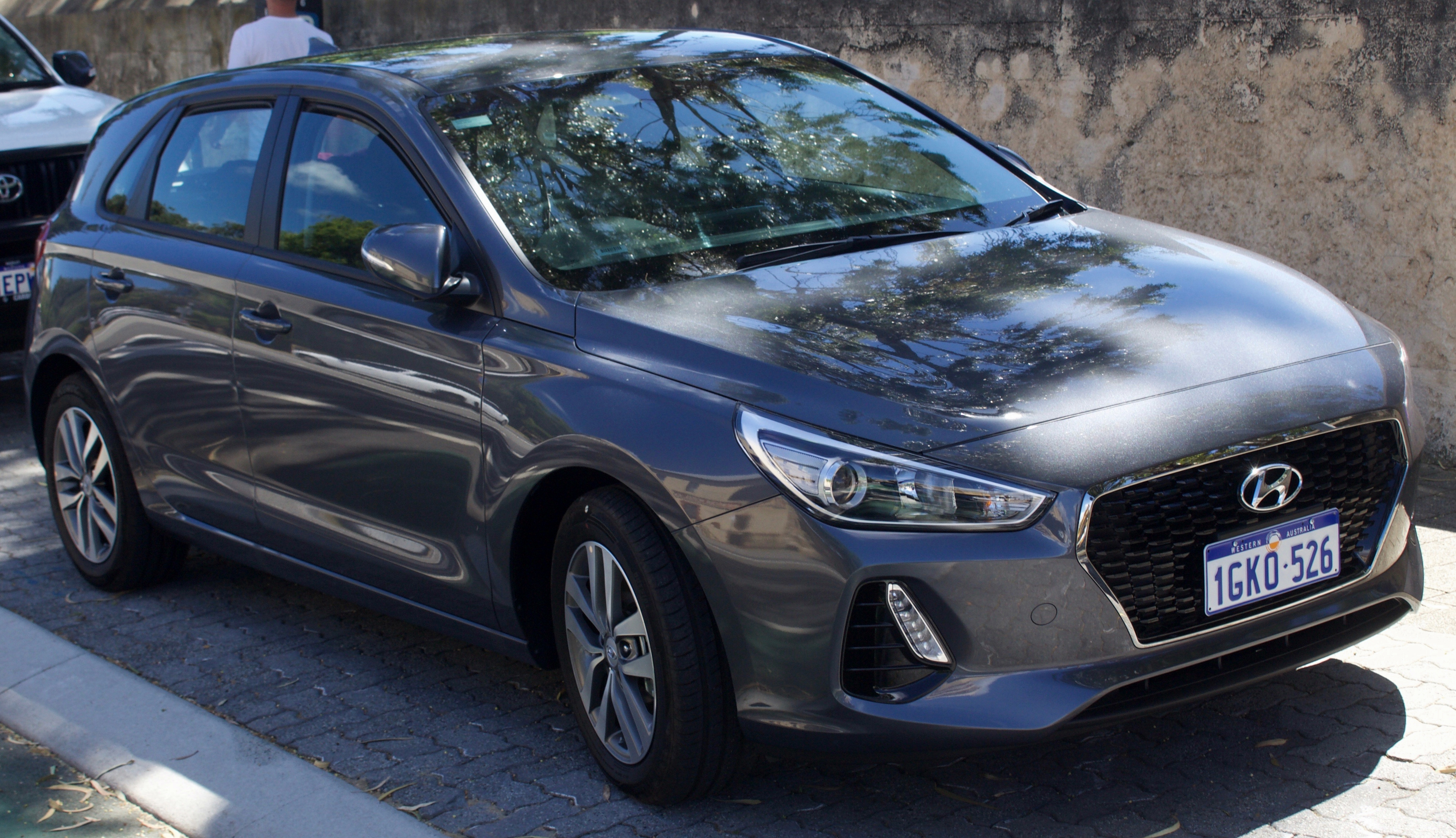 2017 Hyundai i30 (PD MY18) Active 5-door hatchback. Photographed in Fremantle, Western Australia, Australia.